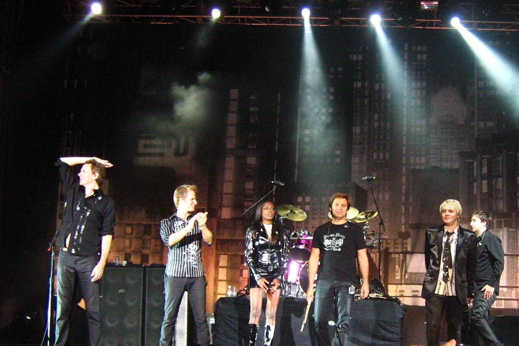 Duran Duran live in Bogota.